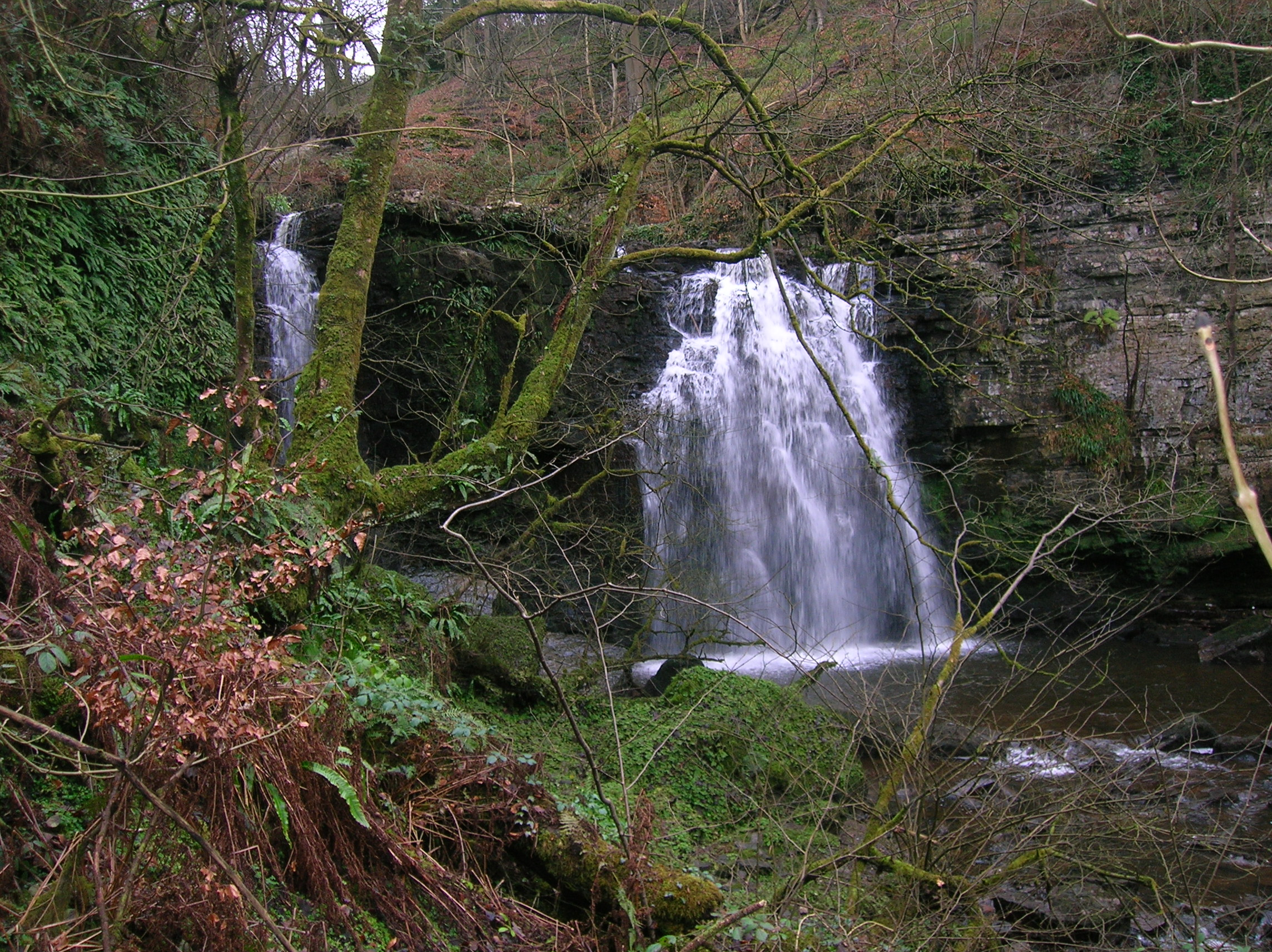 Lynn Spout on the Caaf Water. Lynn Glen, Dalry, North Ayrshire, Scotland.